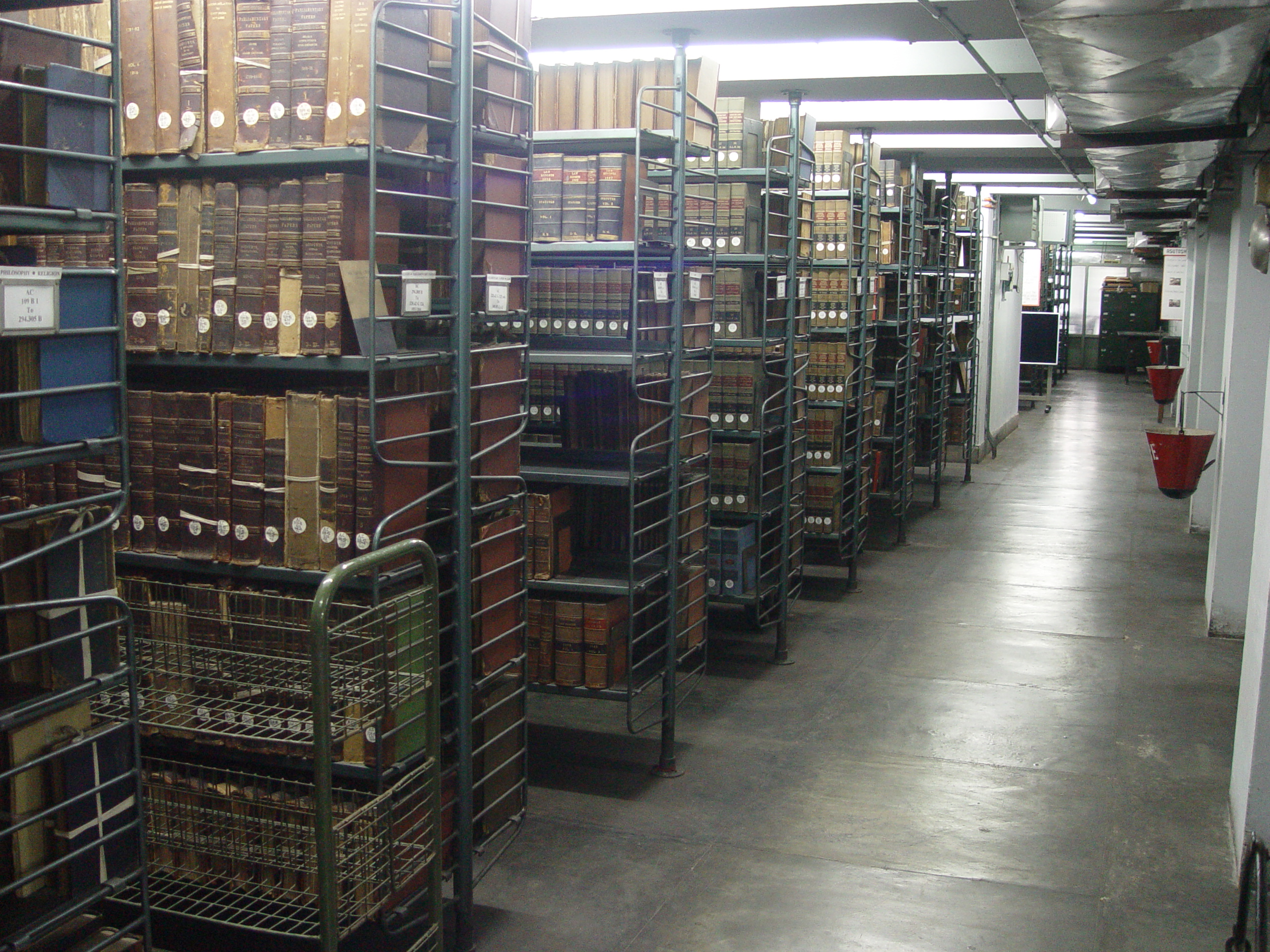 Sir Ashutosh Mukherjee donated his entire personal collection of 80,000 books to the National (formerly Imperial) Library of India and it is arranged in a separate section at the annex building in Kolkata.